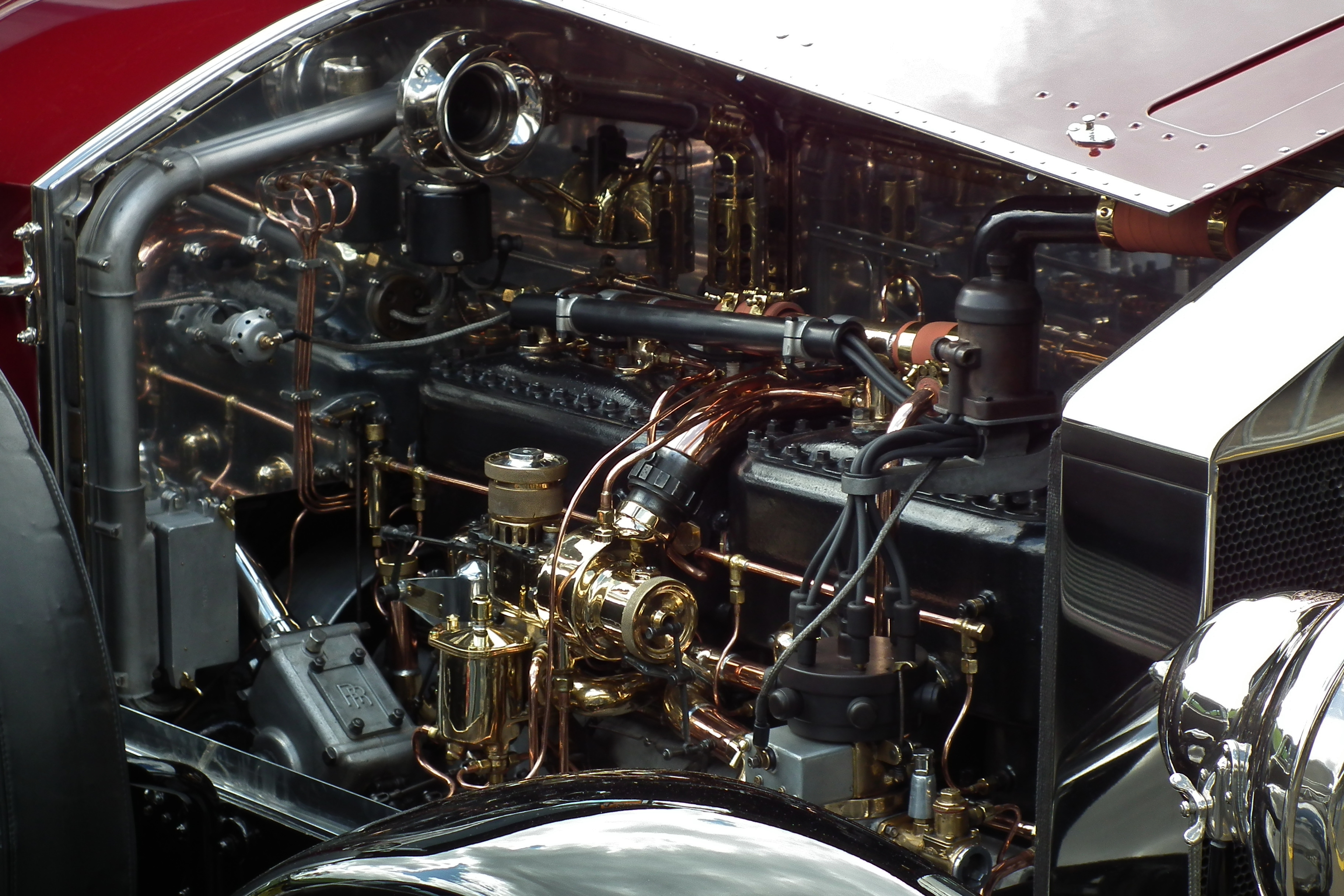 1921 Rolls-Royce Silver Ghost dual cowl phaeton engine. Taken at Shannon's Eastern Creek Classic 2011, held at Eastern Creek Raceway Sydney.